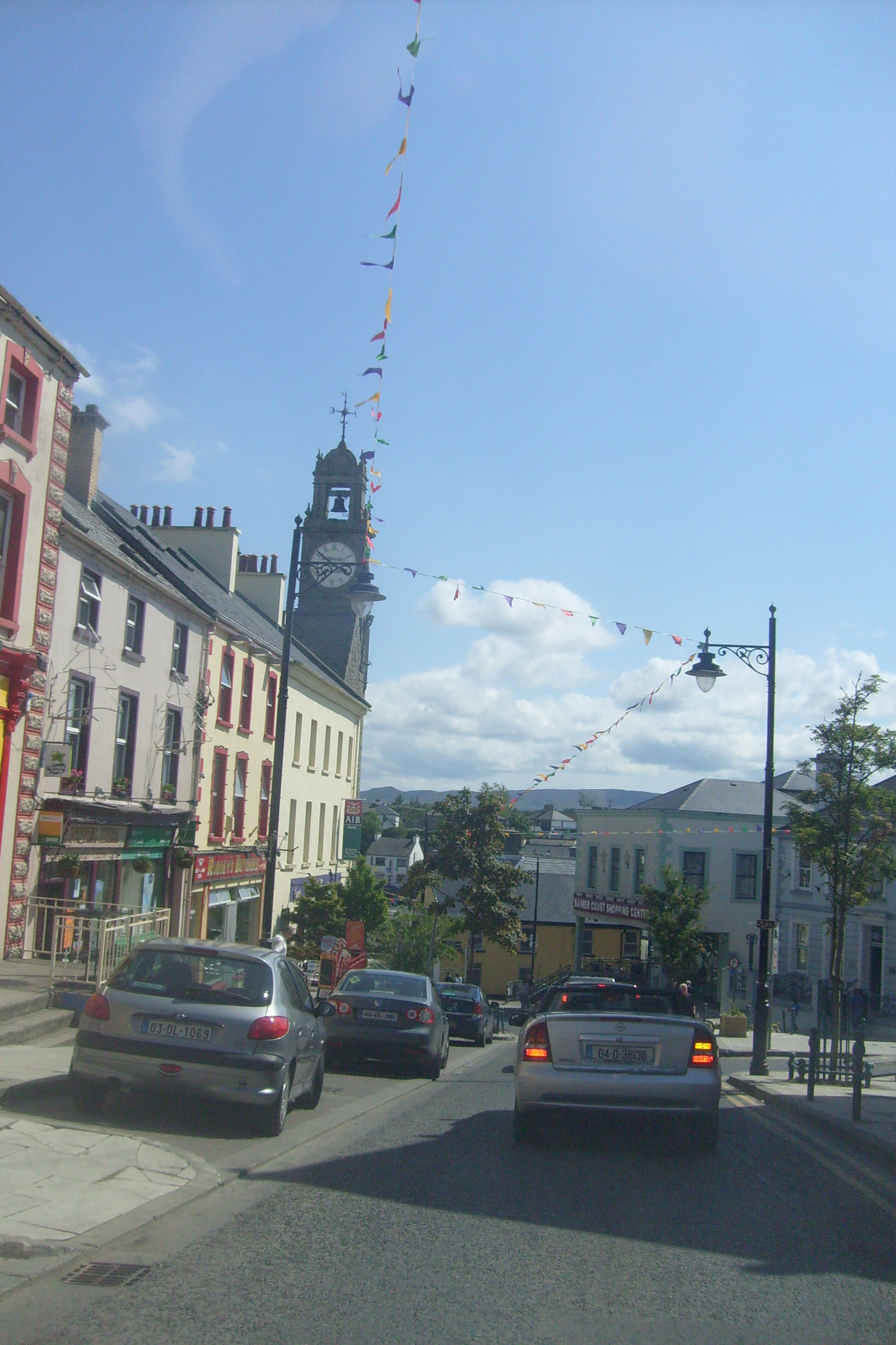 Ballyshannon, Co. Donegal, Ireland